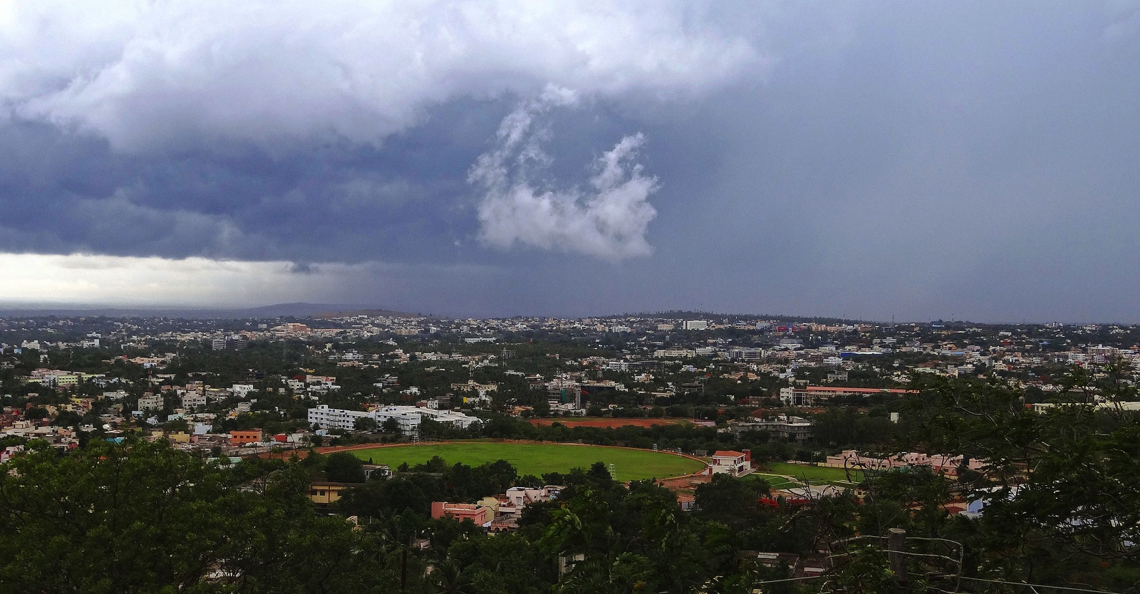 Panoramic View of Hubli City from Nrupatunga Hill